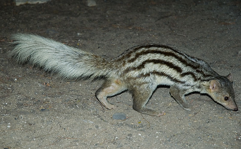 Grandidier's mongoose (Galidictis grandidieri) in Tsimanampetsootsa National Park, Madagascar, October 2007